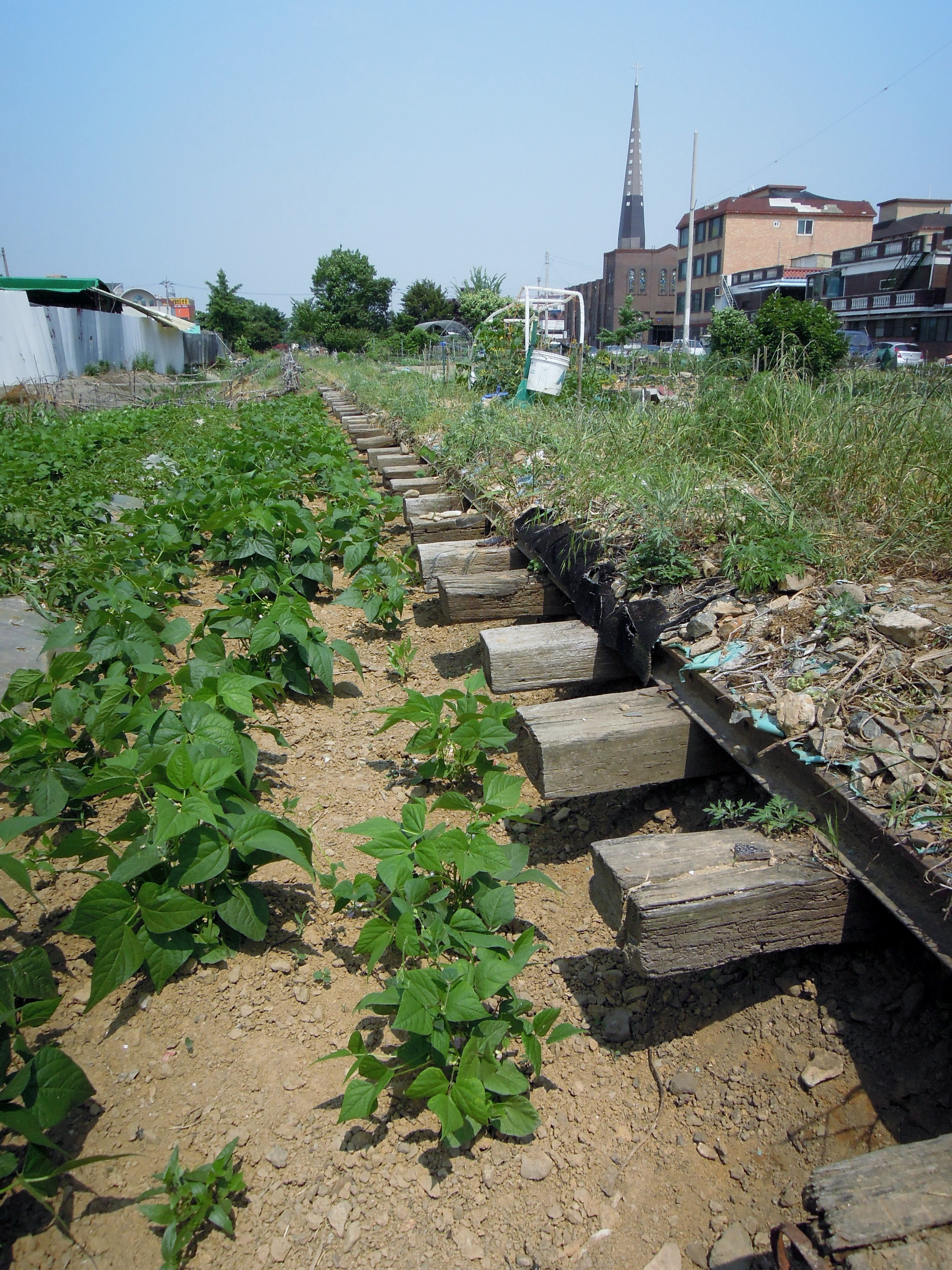 The Suin Line in Pyeong-dong, Suwon